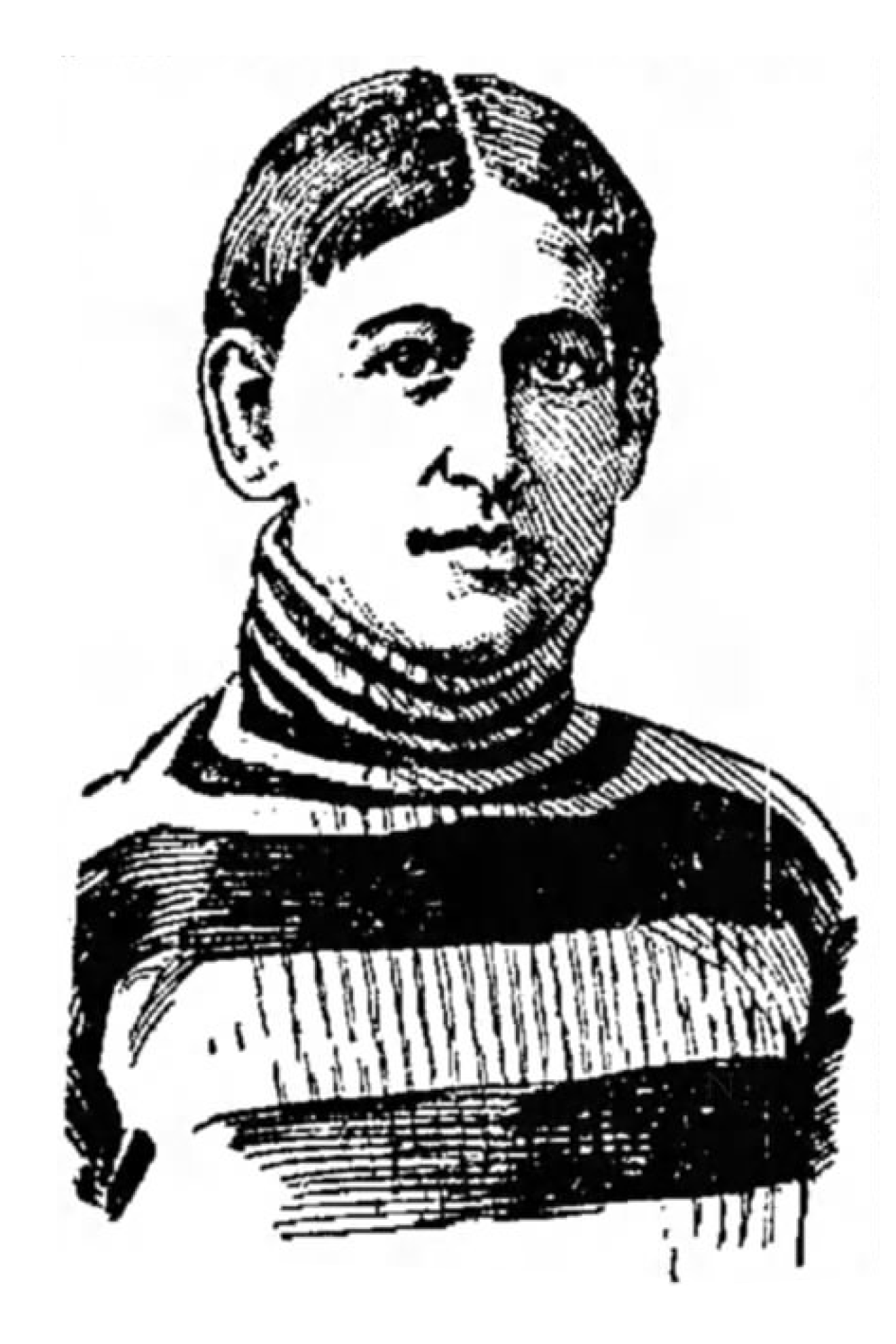 Georgetown football player Carlos Long